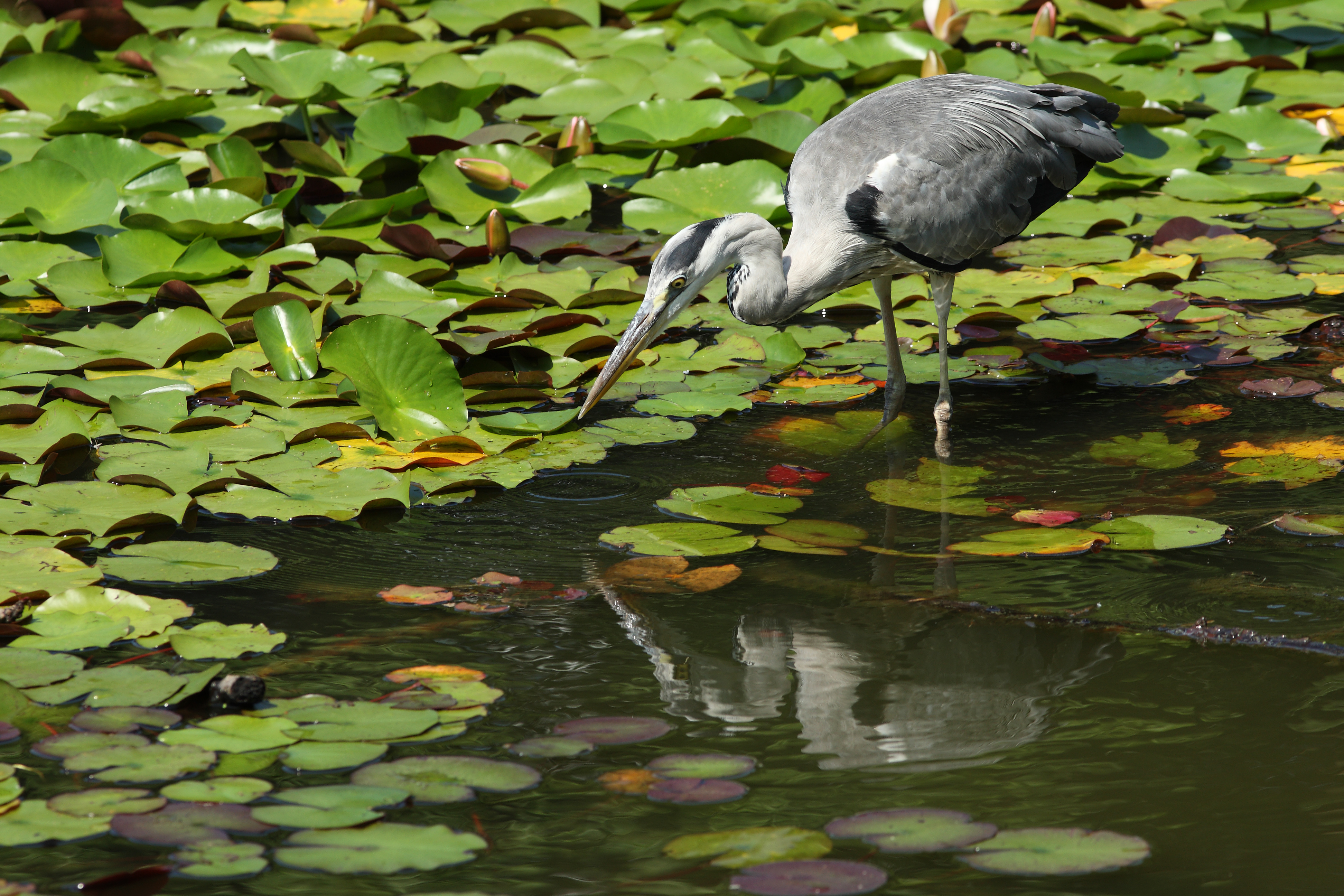 Grey Heron (Taken at Keitakuen.)